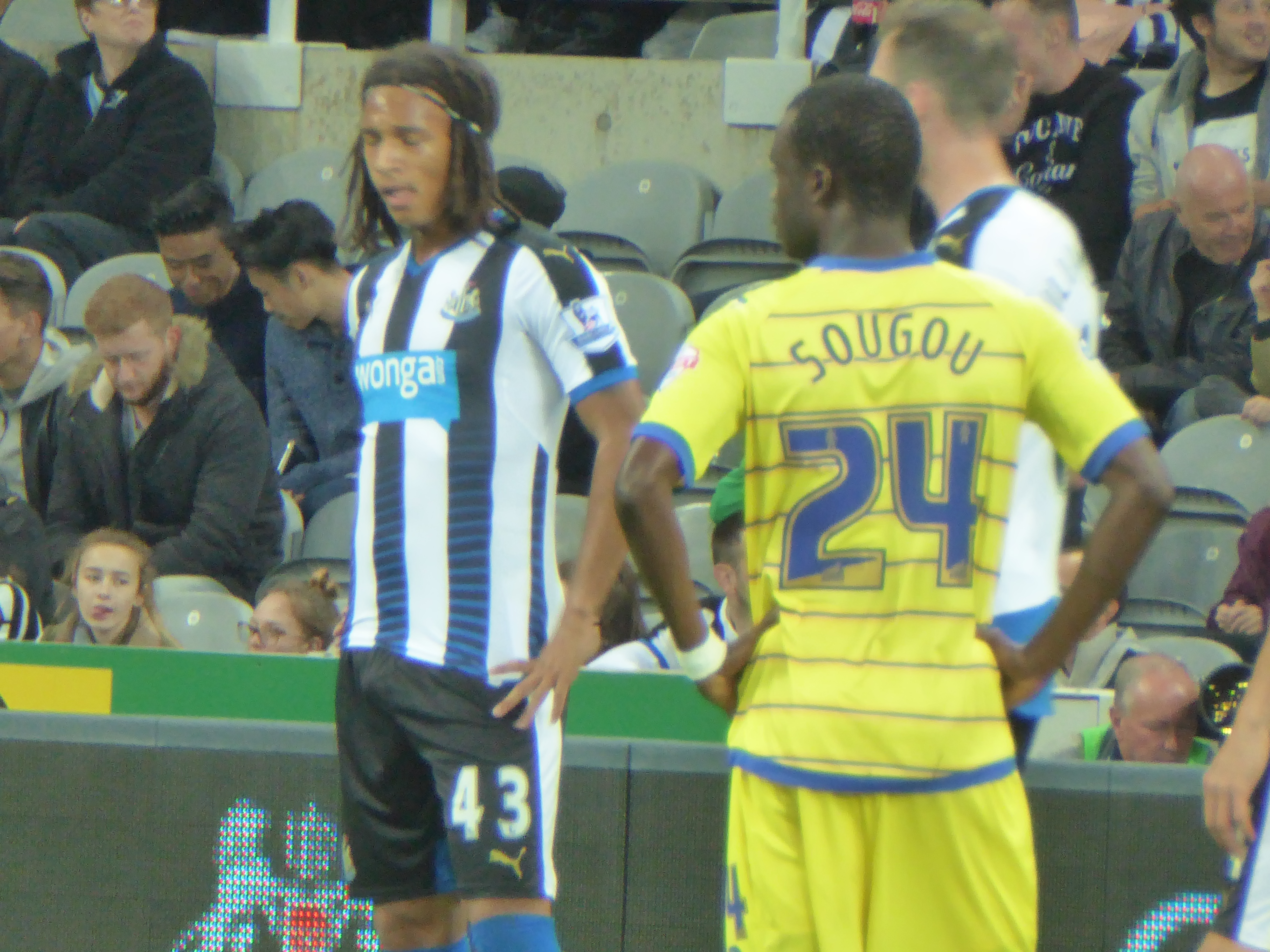 Newcastle United vs Sheffield Wednesday (0-1), Capital One Cup Third Round, St James' Park, Newcastle upon Tyne, Tyne and Wear, England, September 2015